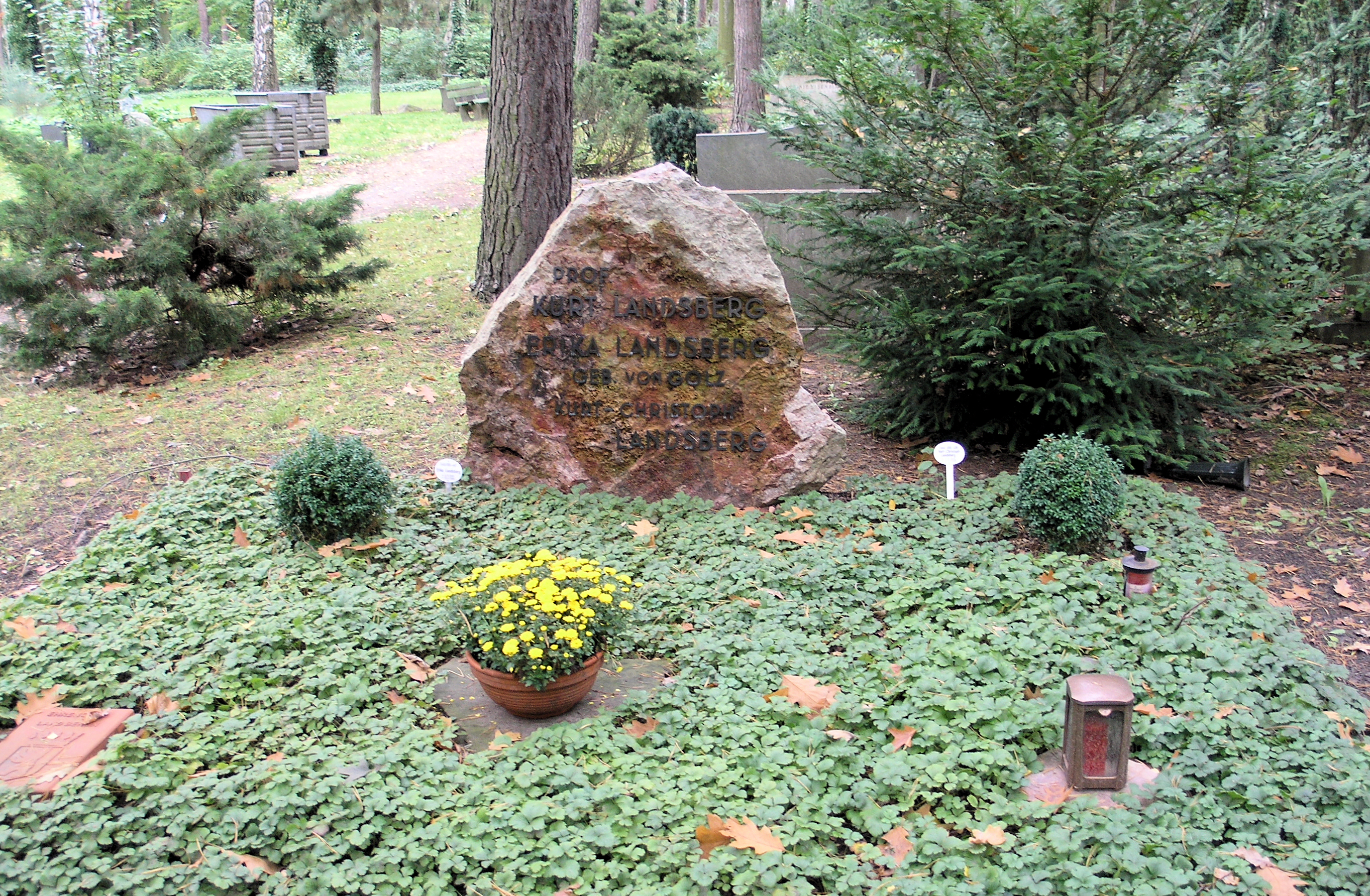 "Ehrengrab" (grave of honor), Kurt Landsberg, Potsdamer Chaussee 75, Berlin-Nikolassee, Germany Koordinate:52°25′23″N 13°12′38″E / 52.42306°N 13.21056°E